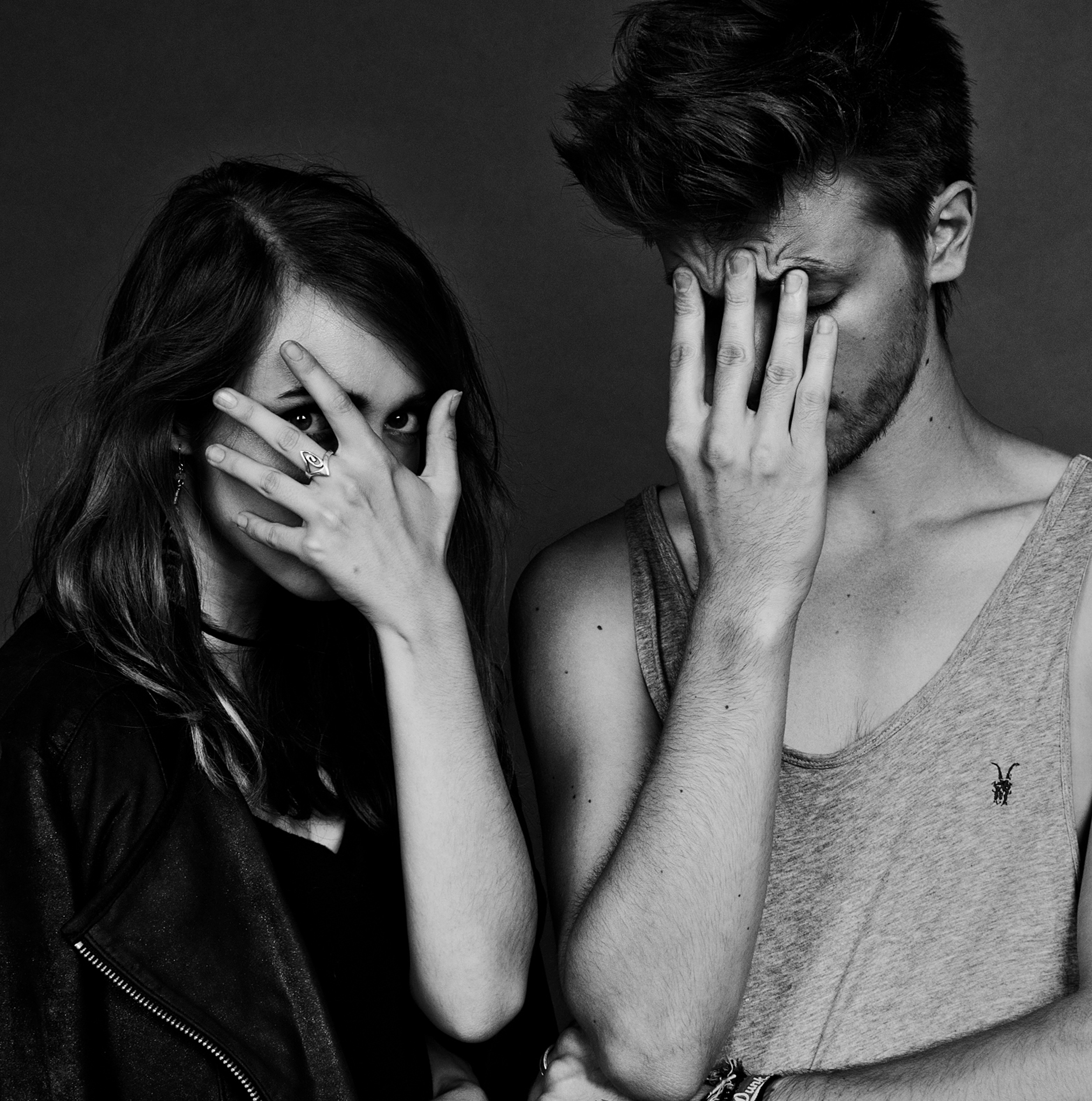 The photo used for the Feel Alive single cover